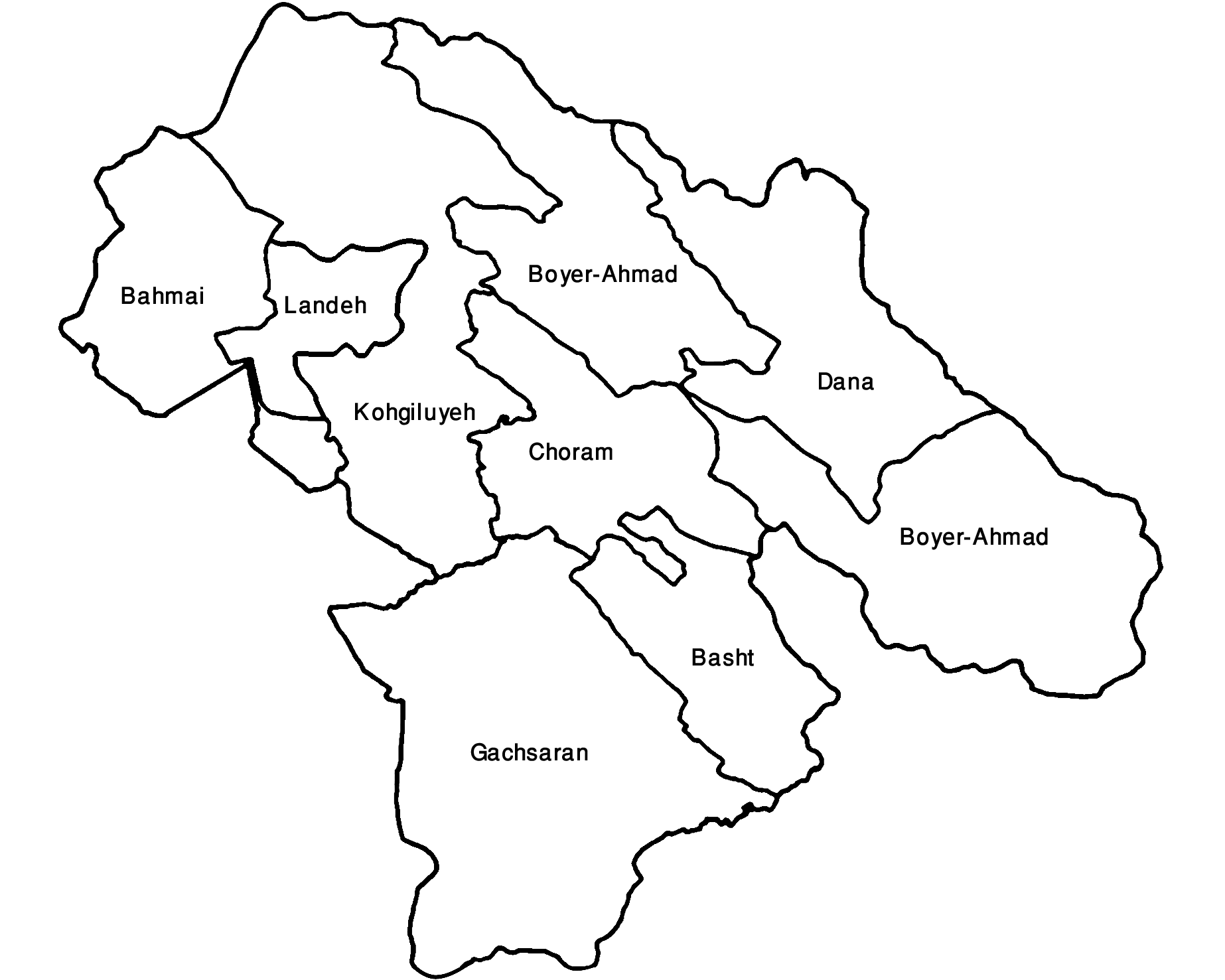 map of counties of Kohgiluyeh and Boyer-Ahmad Province